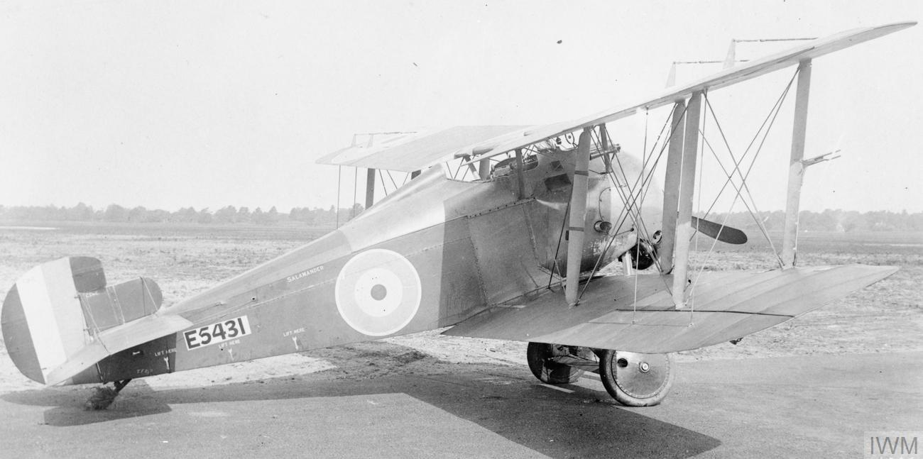 Early Aircraft Types, Mainly British 1914 - 1918 (gsa 124) The third prototype Sopwith Salamander, E 5431